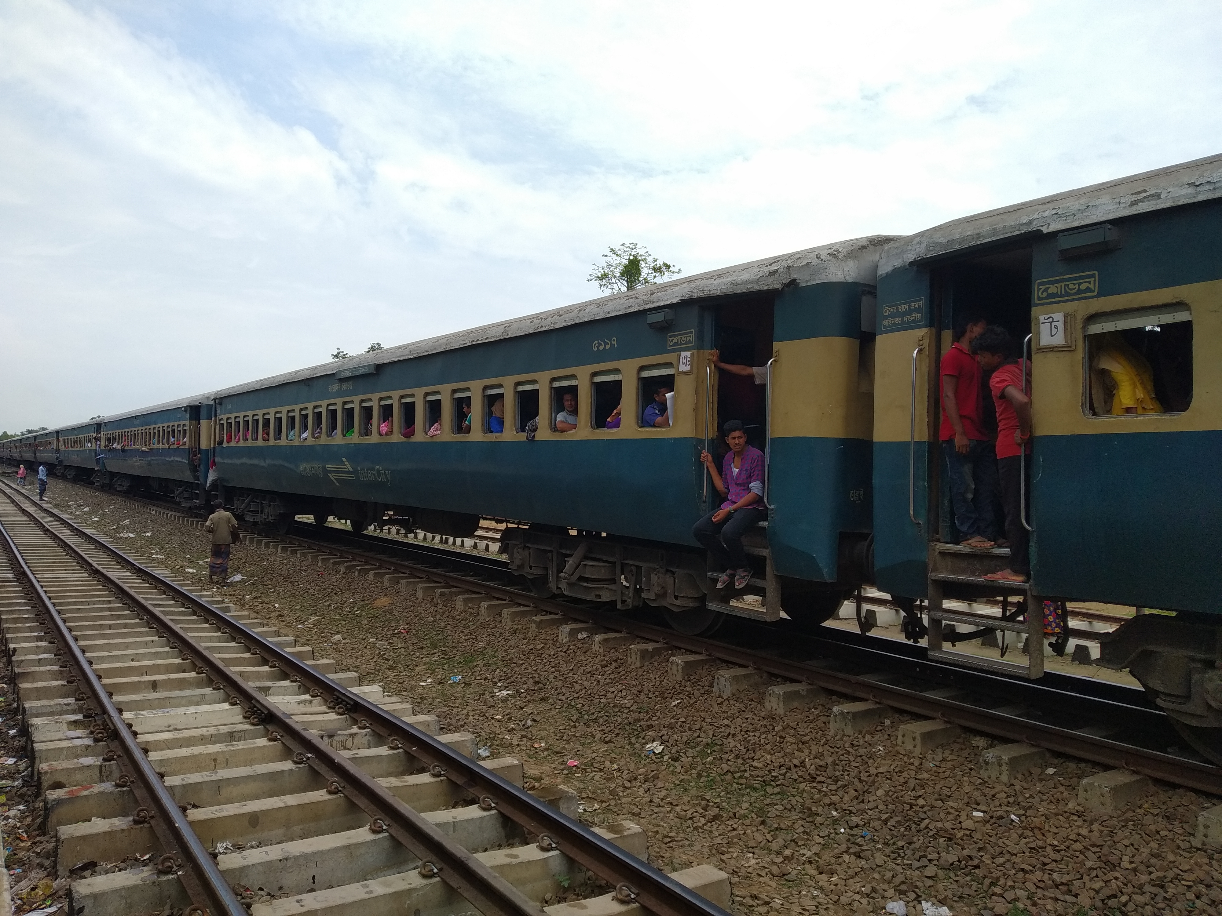 Titumir Express at Birampur station